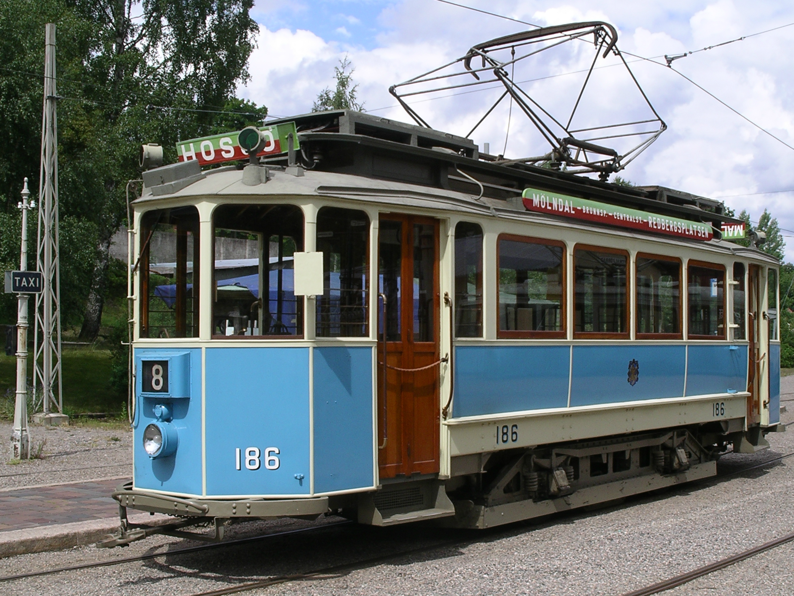 Gothenburg Tramways No 186 in Malmköping, Sweden.